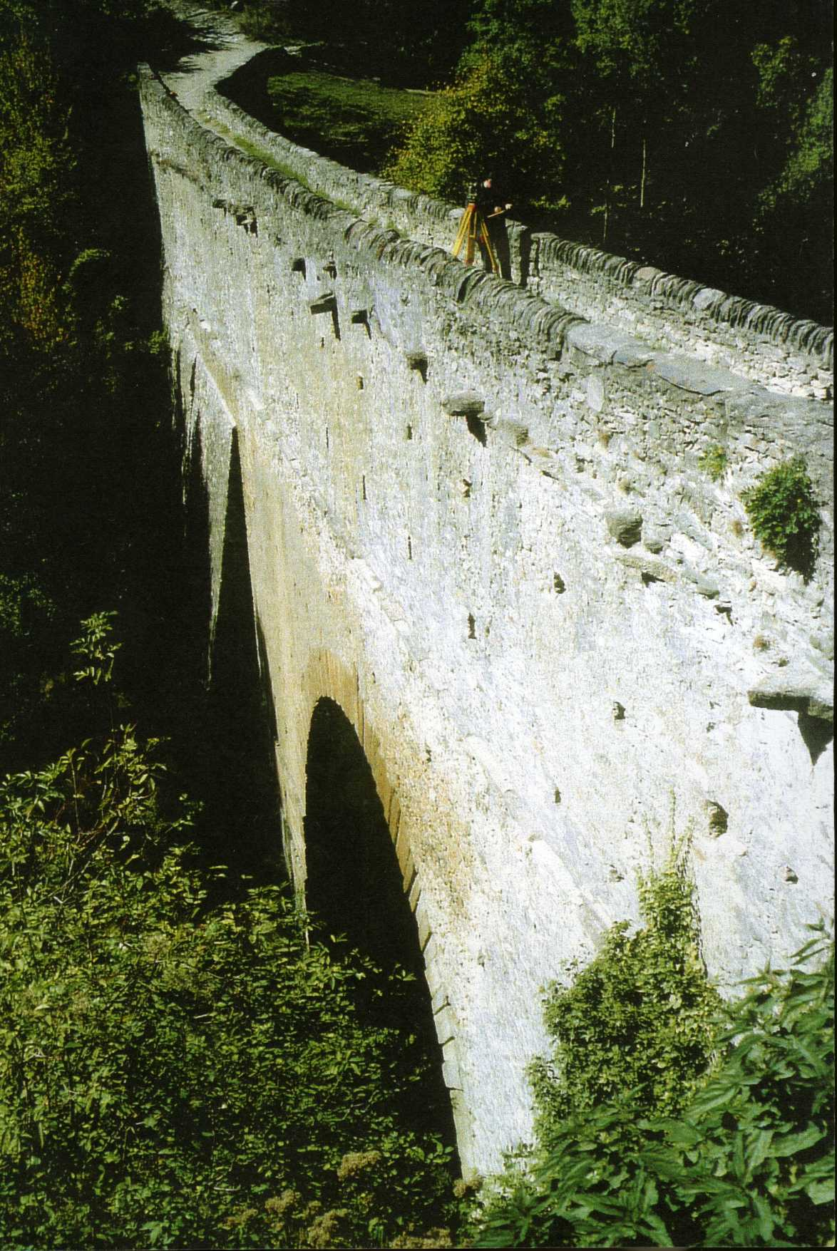 The bridge arch of the Roman Pont d'Aël in the Cogne Valley, a side valley of the Aosta valley, Italian Alpes. The aqueduct bridge was built in 3 BC. It carried water to agricultural lands and to washings plants of nearby gold and iron mines.